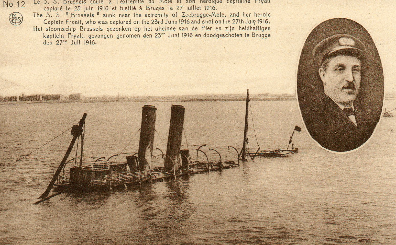 SS Brussels sunk in Zeebrugge Harbour, she was scuttled by the Germans on 28 October 1918 when they evacuated Zeebrugge. This scene taken after the Armistice of 11 November 1918. (inset - a portrait of Captain Fryatt)